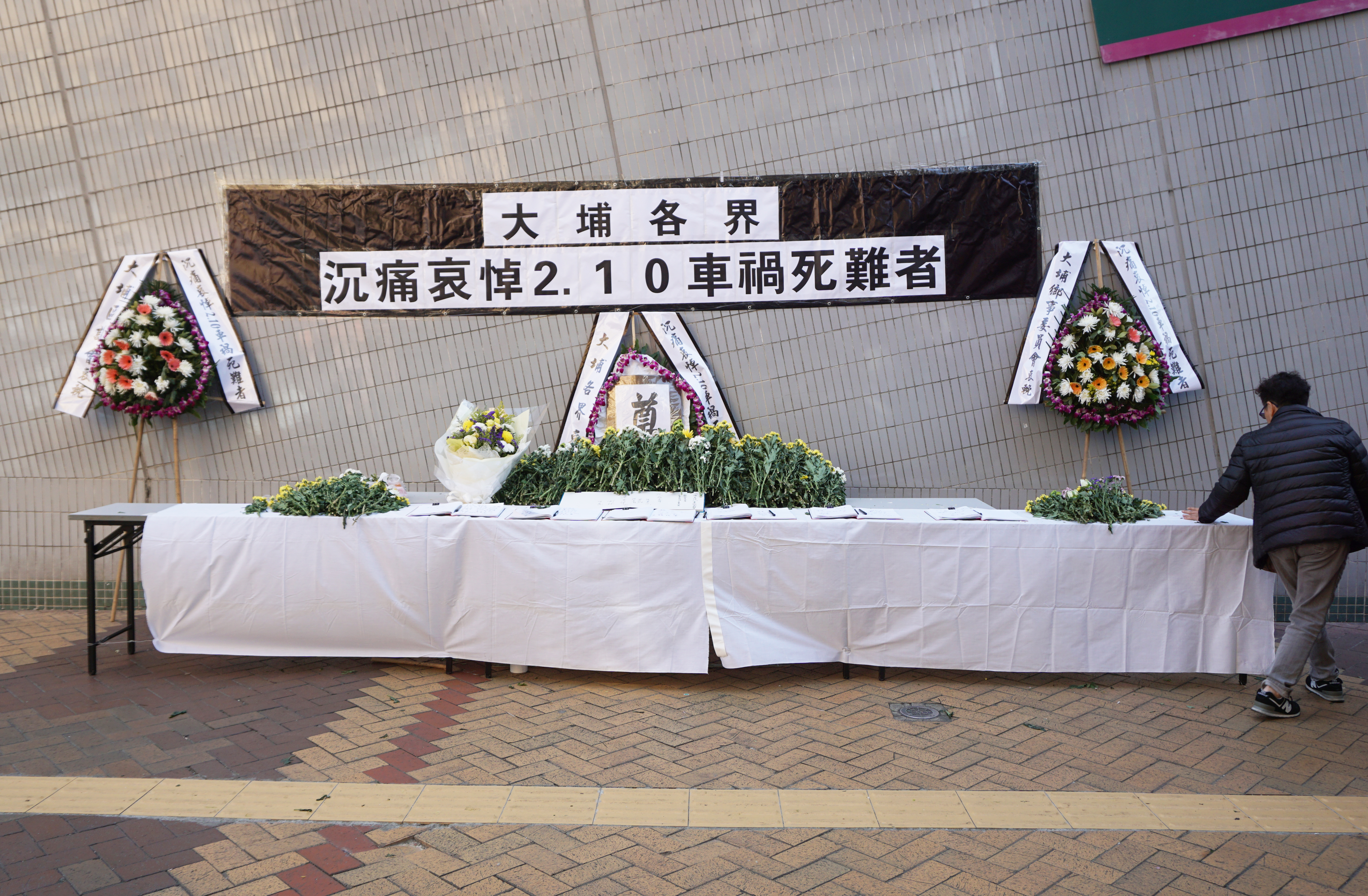 Double-decker Bus Tilted Incident in Tai Po Road, Hong Kong.